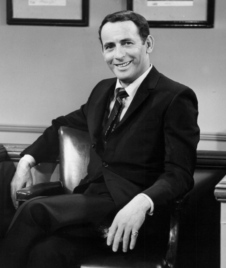 Publicity photo of Joey Bishop from the television program The New Joey Bishop Show.